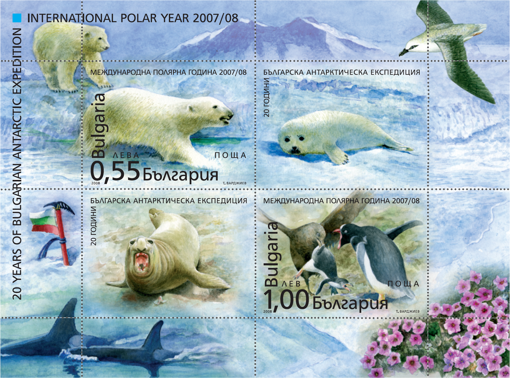 Souvenir sheet “International Polar Year 2007/2008”, a Bulgarian commemorative issue published on 30 January 2008. Design Prof. Todor Vardjiev.